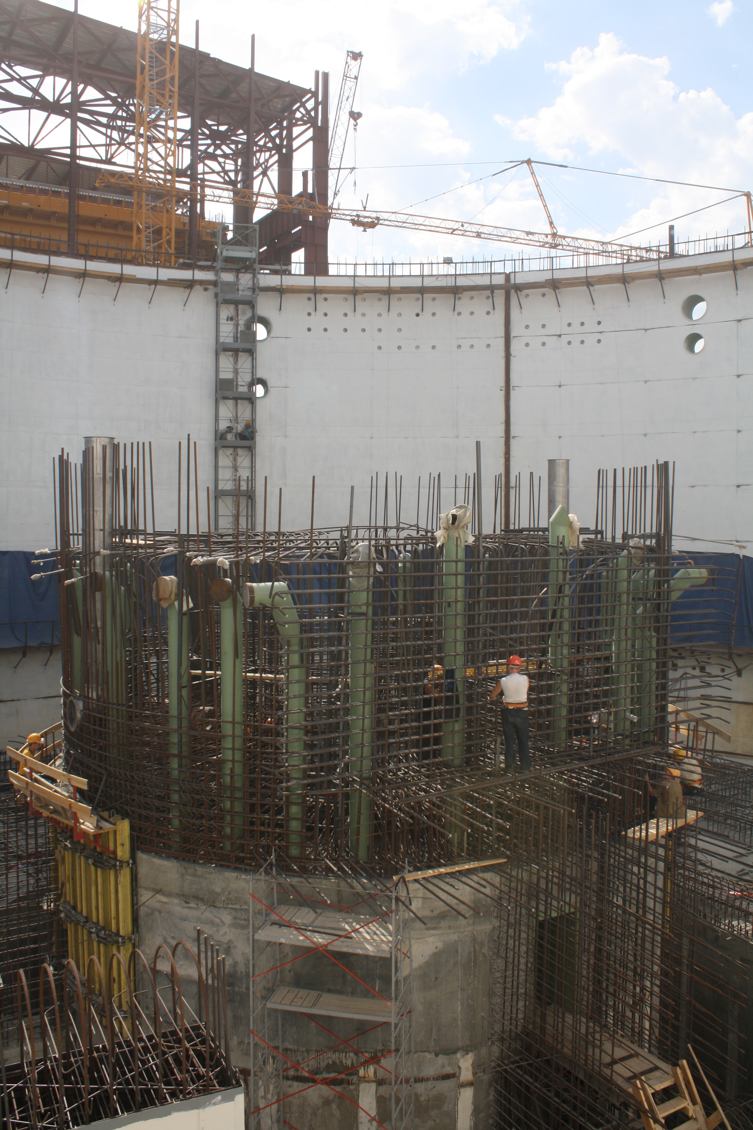 Core-catcher at the Novovoronezh Nuclear Power Plant II